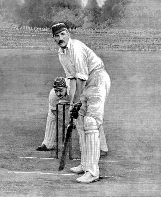 Image of George Giffen from the State Library of Victoria, accessed at: Public Domain. This image is of Australian origin and is now in the public domain because its term of copyright has expired. According to the Australian Copyright Council (ACC), ACC Information Sheet G023v17 (Duration of copyright) (August 2014).3 Type of materialCopyright has expired if … A Photographs or other works published anonymously, under a pseudonym or the creator is unknown: taken or published prior to 1 January 1955BPhotographs (except A): taken prior to 1 January 1955CArtistic works (except A & B): the creator died before 1 January 1955DPublished editions1 (except A & B): first published more than 25 years agoECommonwealth, State or Territory owned2 photographs and engravings: taken or published more than 50 years ago 1 means the typographical arrangement and layout of a published work. eg. newsprint. 2 owned means where a government is the copyright owner as well as would have owned copyright but reached some other agreement with the creator. 3 Copyright Amendment (Disability Access and Other Measures) Bill 2017 (Australian Government) When using this template, please provide information of where the image was first published and who created it.